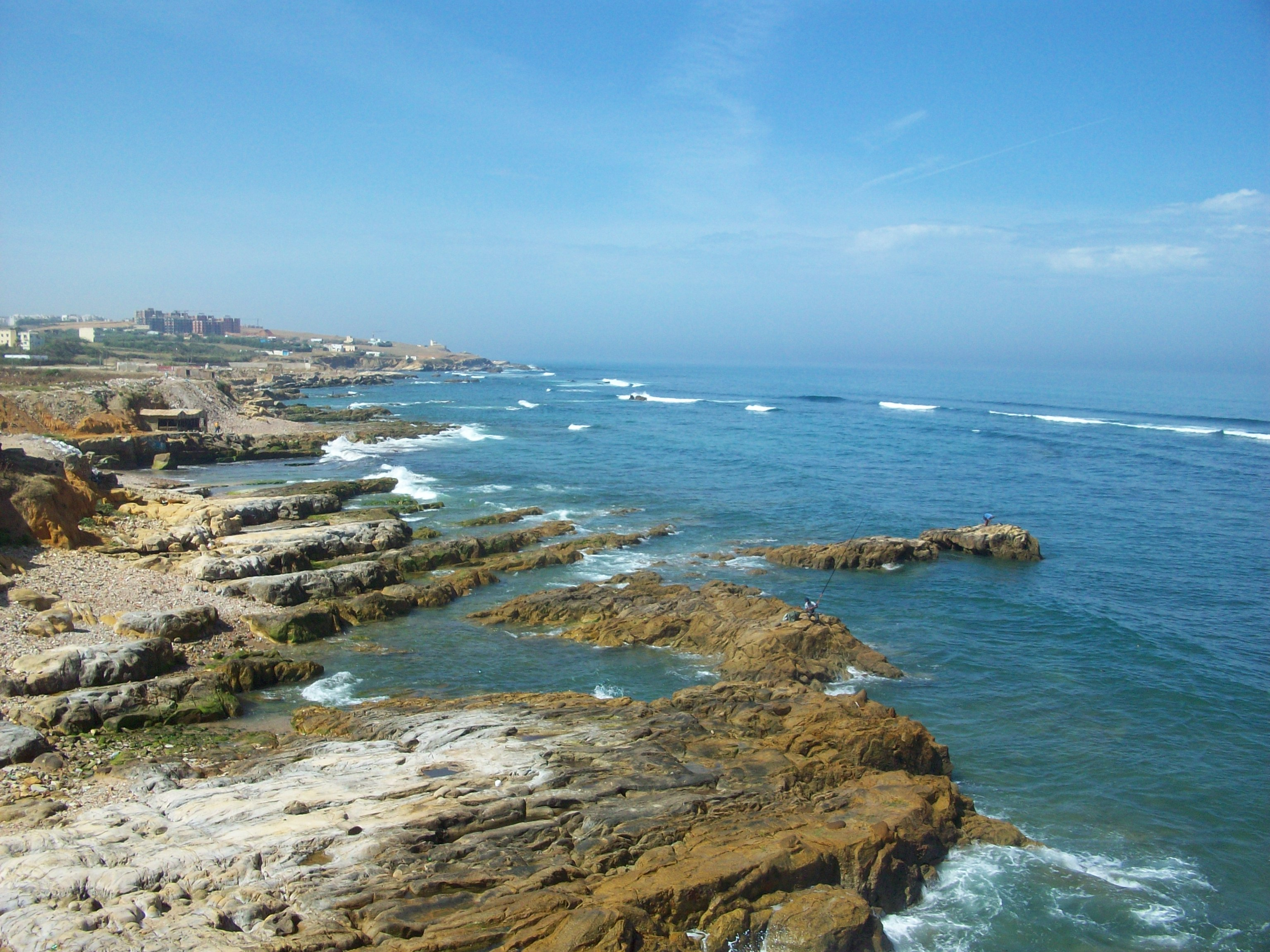 Assilah, Morocco